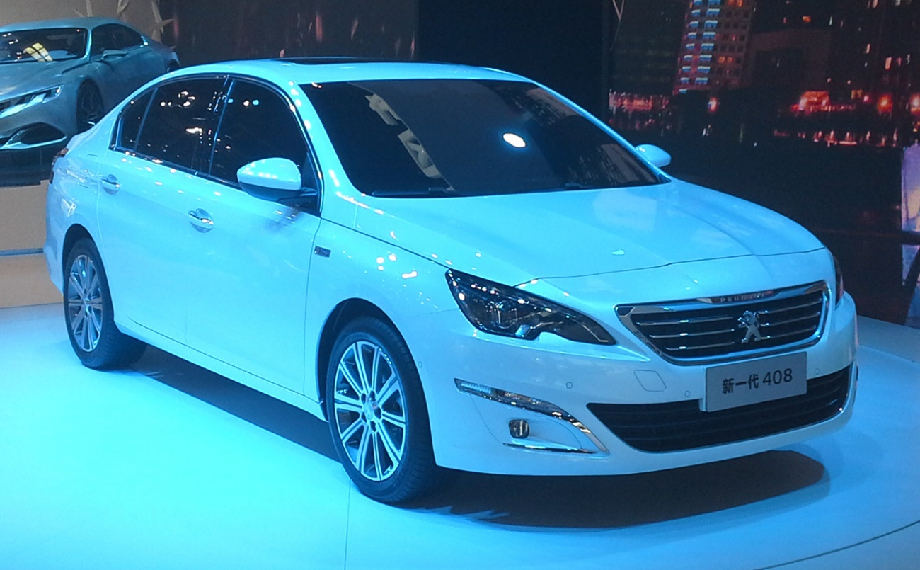 Peugeot 408 II photographed at the Auto China 2014, Beijing, China.